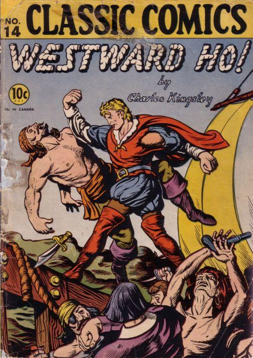 Cover scan of a Classics Comics book